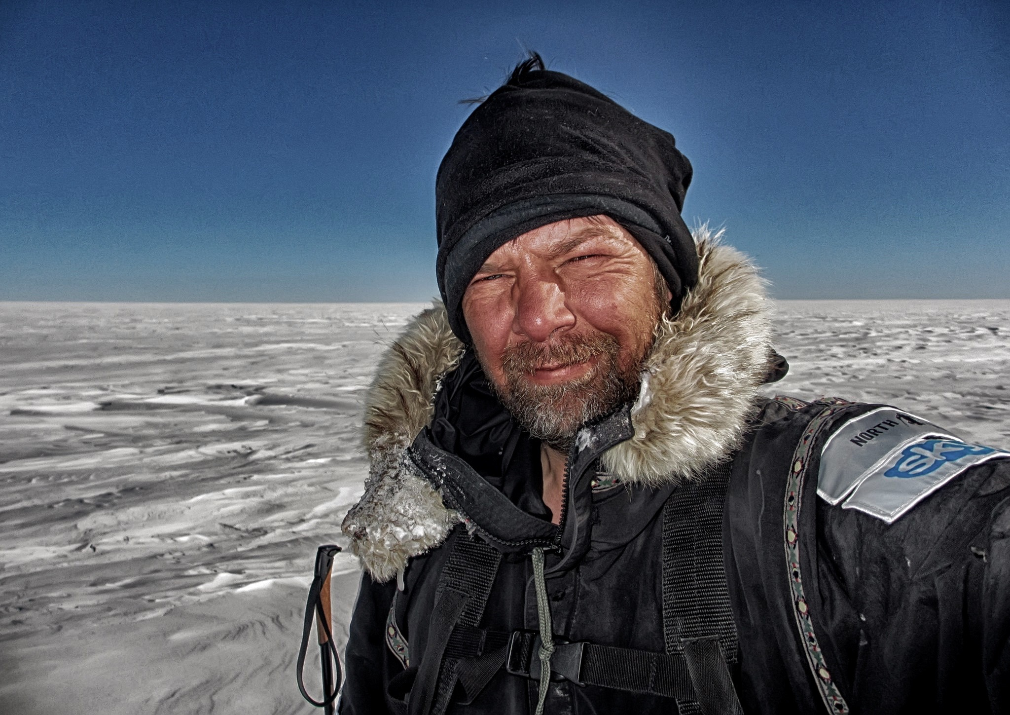 Photograph of Mark Wood, South Pole Solo Expedition